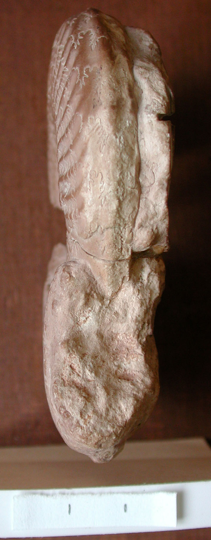 Ammonite Martanites prorsiradiatus